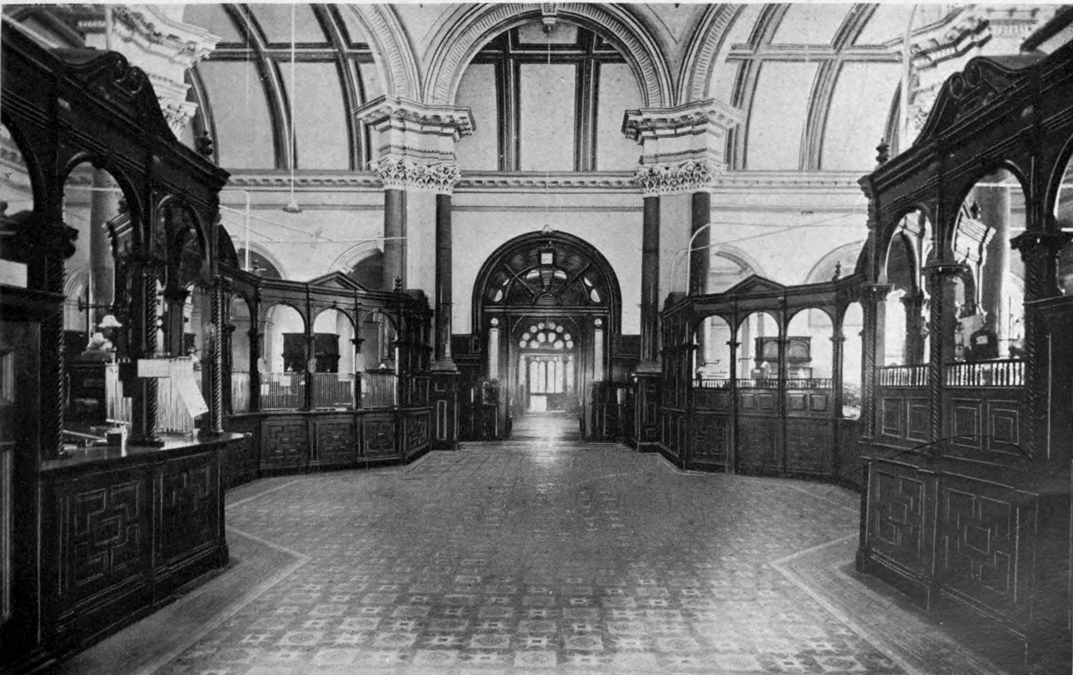 Interior of Hong Kong and Shanghai Bank